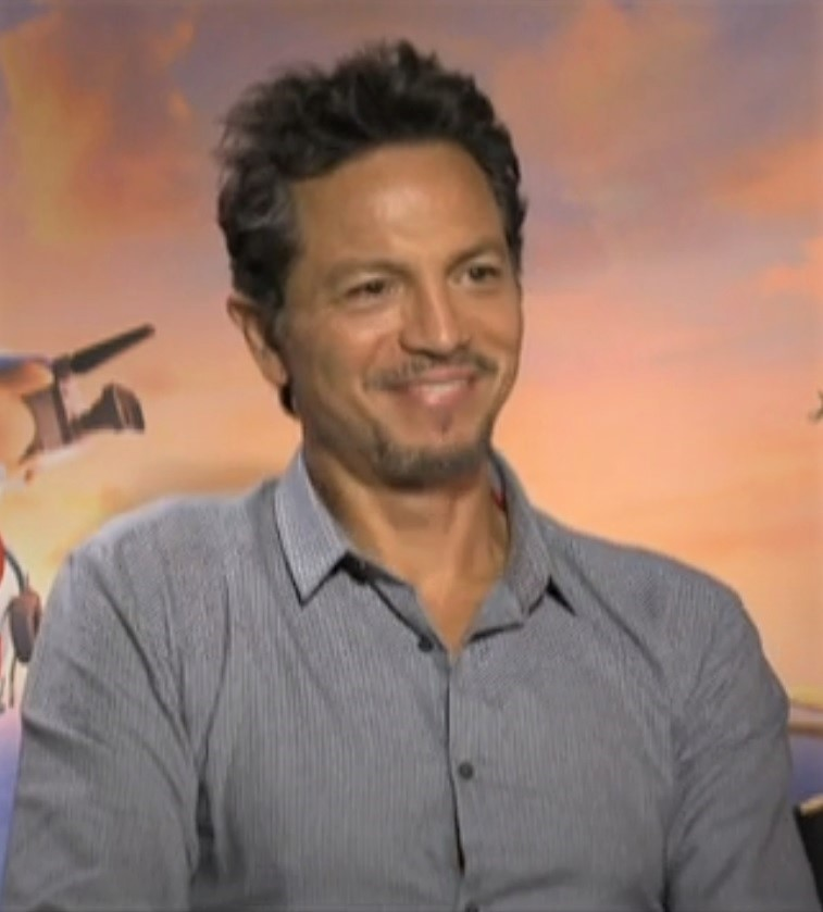 CLOUDY WITH A CHANCE OF MEATBALLS 2 Interview: Benjamin Bratt and Anna Faris by Dulce Osuna